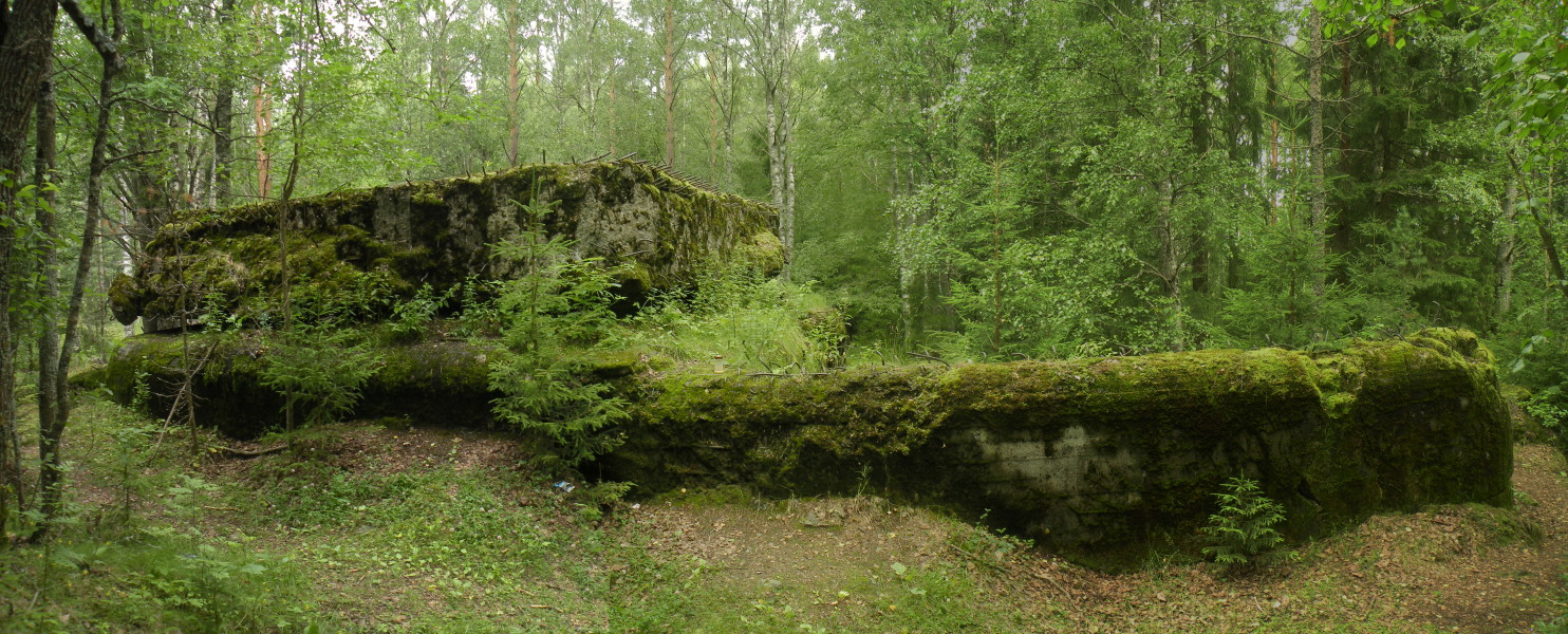 View_of_Pillbox Sk16_(frontal)